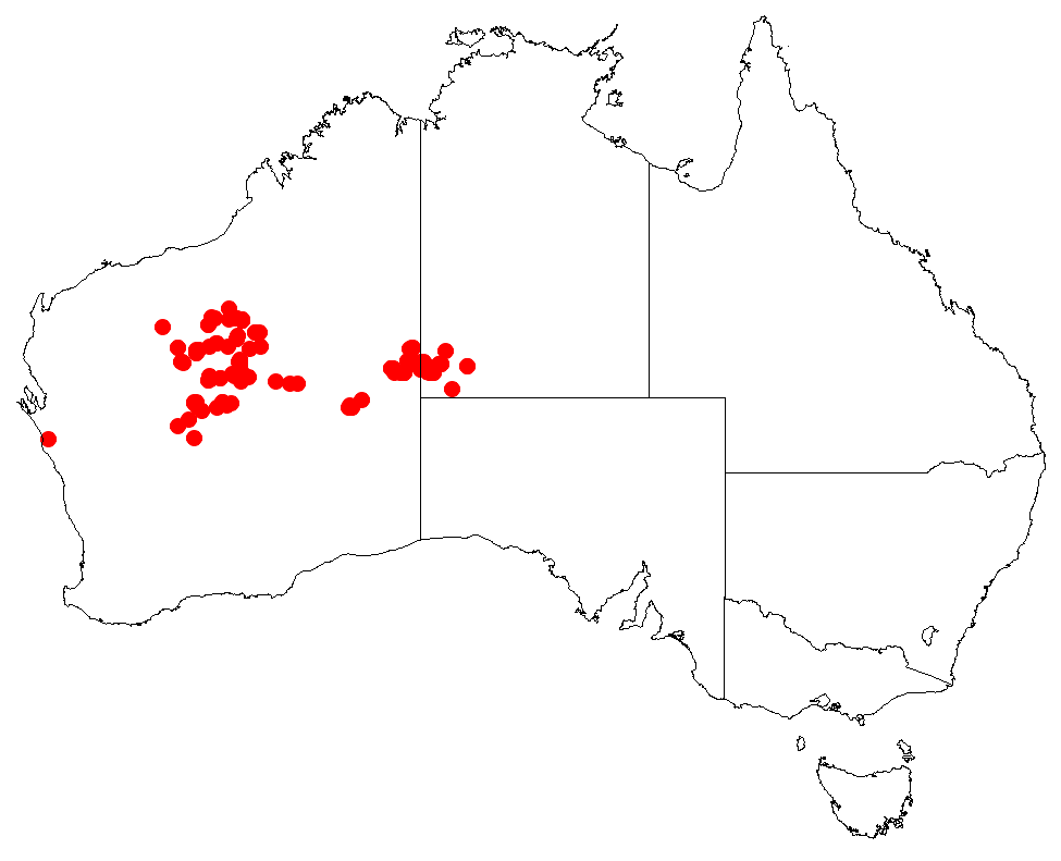 Hakea rhombales Occurrence data downloaded from Australasian Virtual Herbarium on 22 November 2018 using